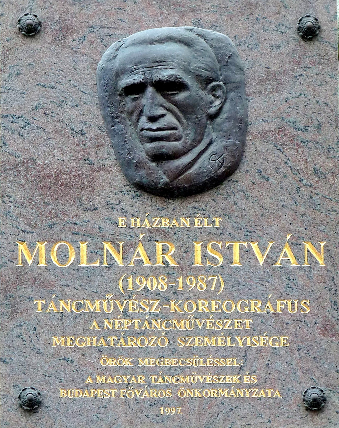 István Molnár (choreographer) commemorative plaque with relief in Budapest District VII, Marek József Street No 18. The bronze relief was created by János Andrássy Kurta.